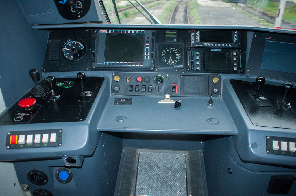 Cabview of the locomotive E403 by Trenitalia.